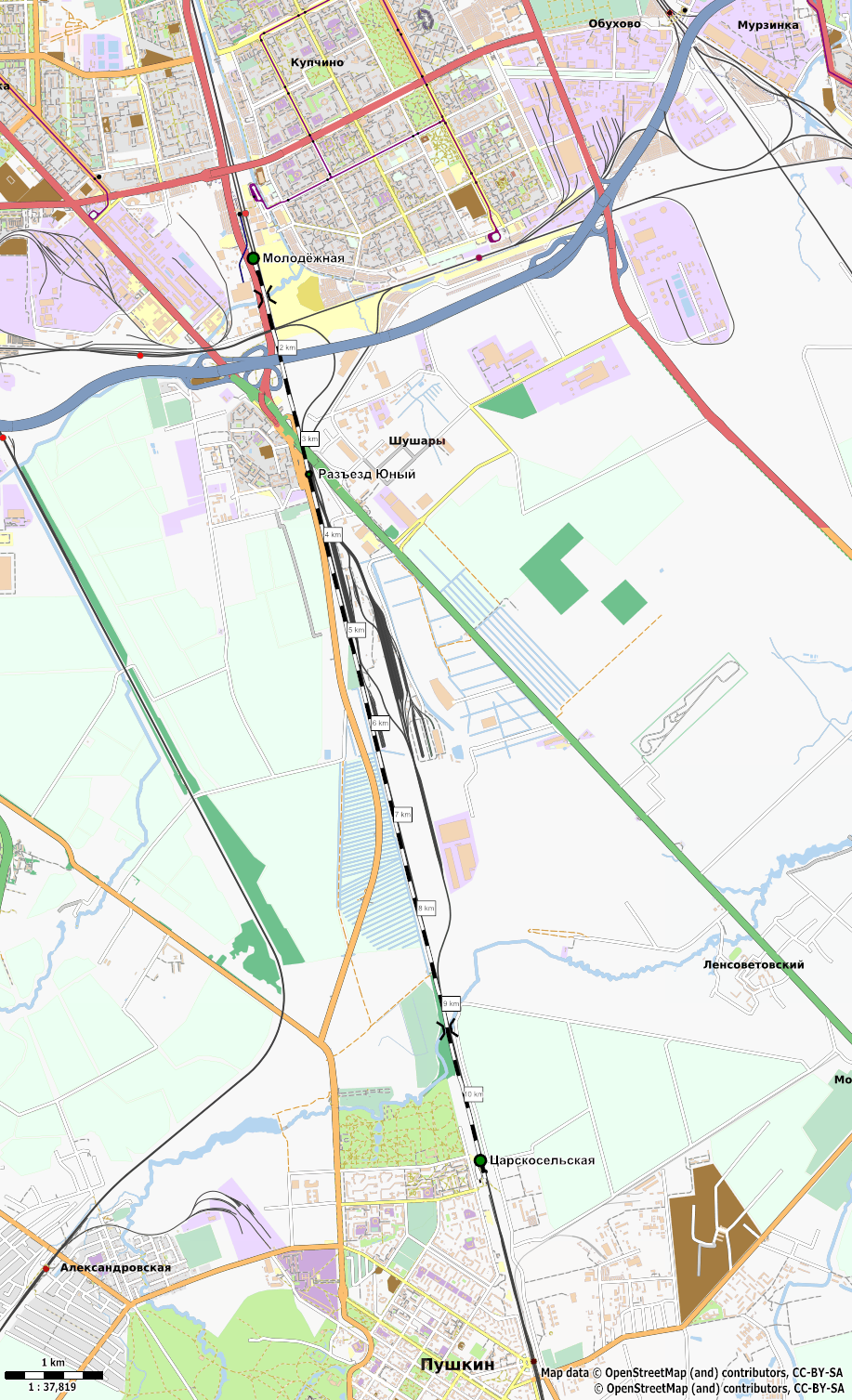 Map of Minor October Railway, Kupchino - Pushkin line. RZD. Russia, Saint-Peretburg.